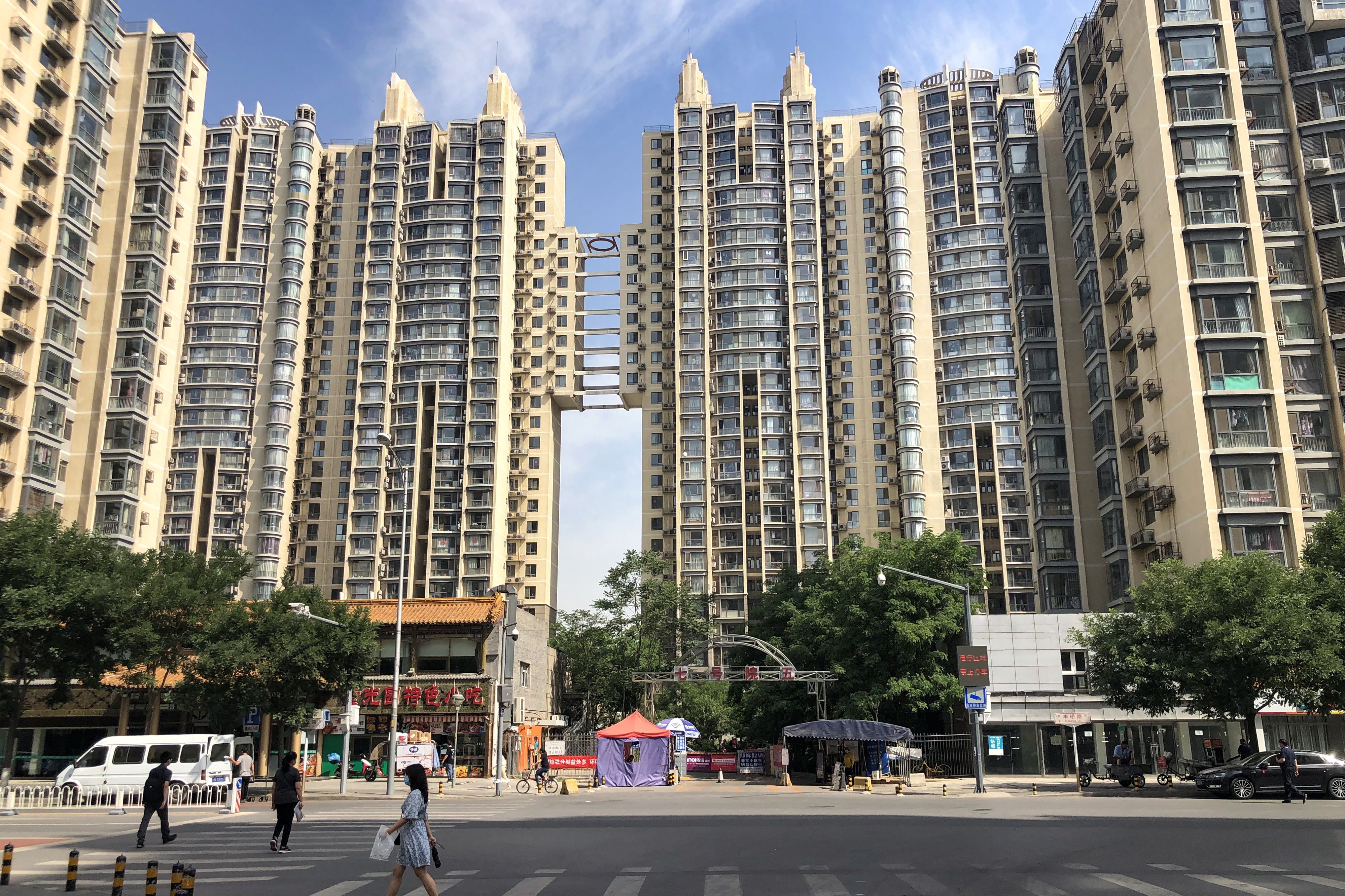 Near Fengtai Railway Station.